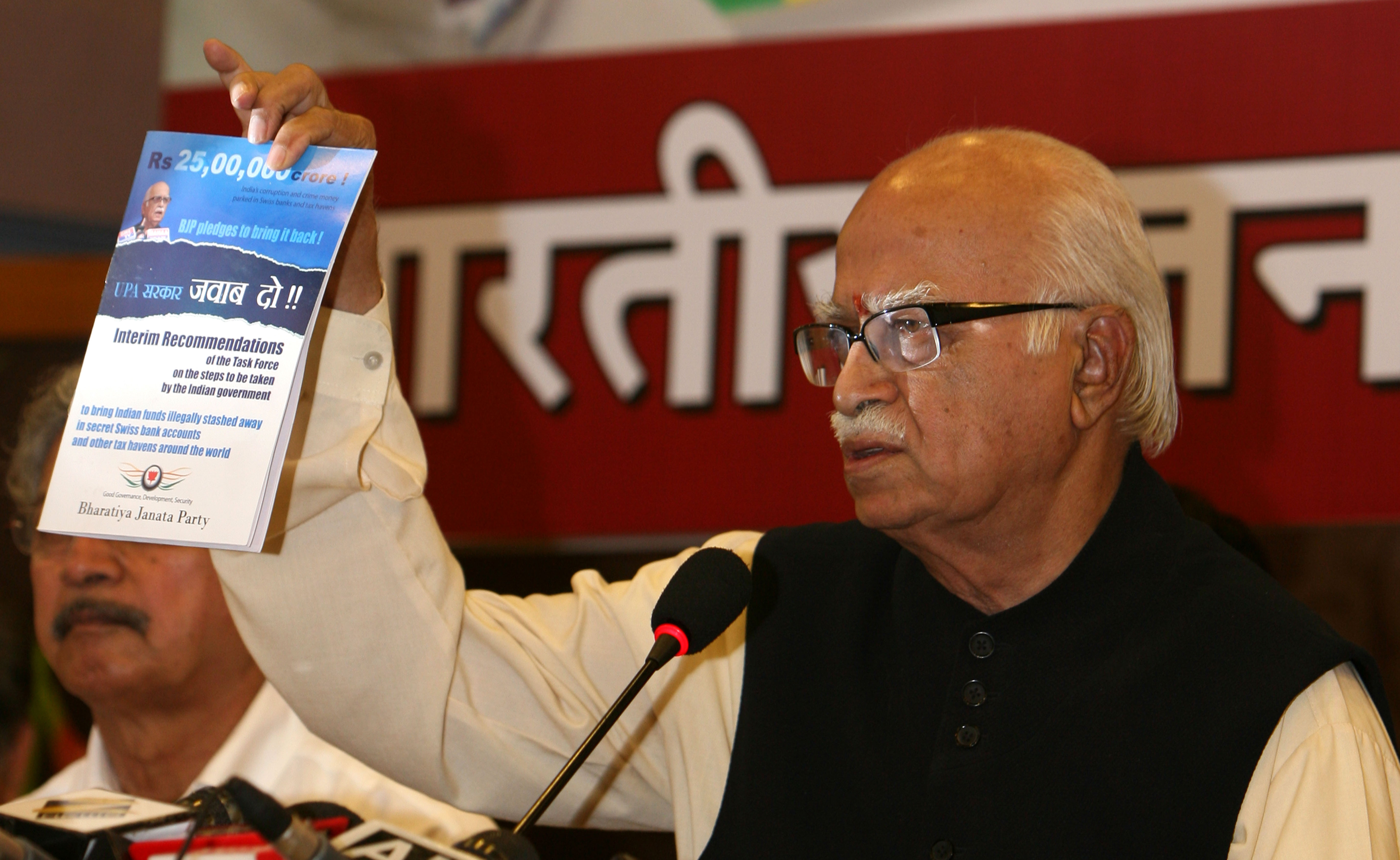 L K Advani, the BJP's prime ministerial candidate, is criss-crossing the country to canvass for votes.